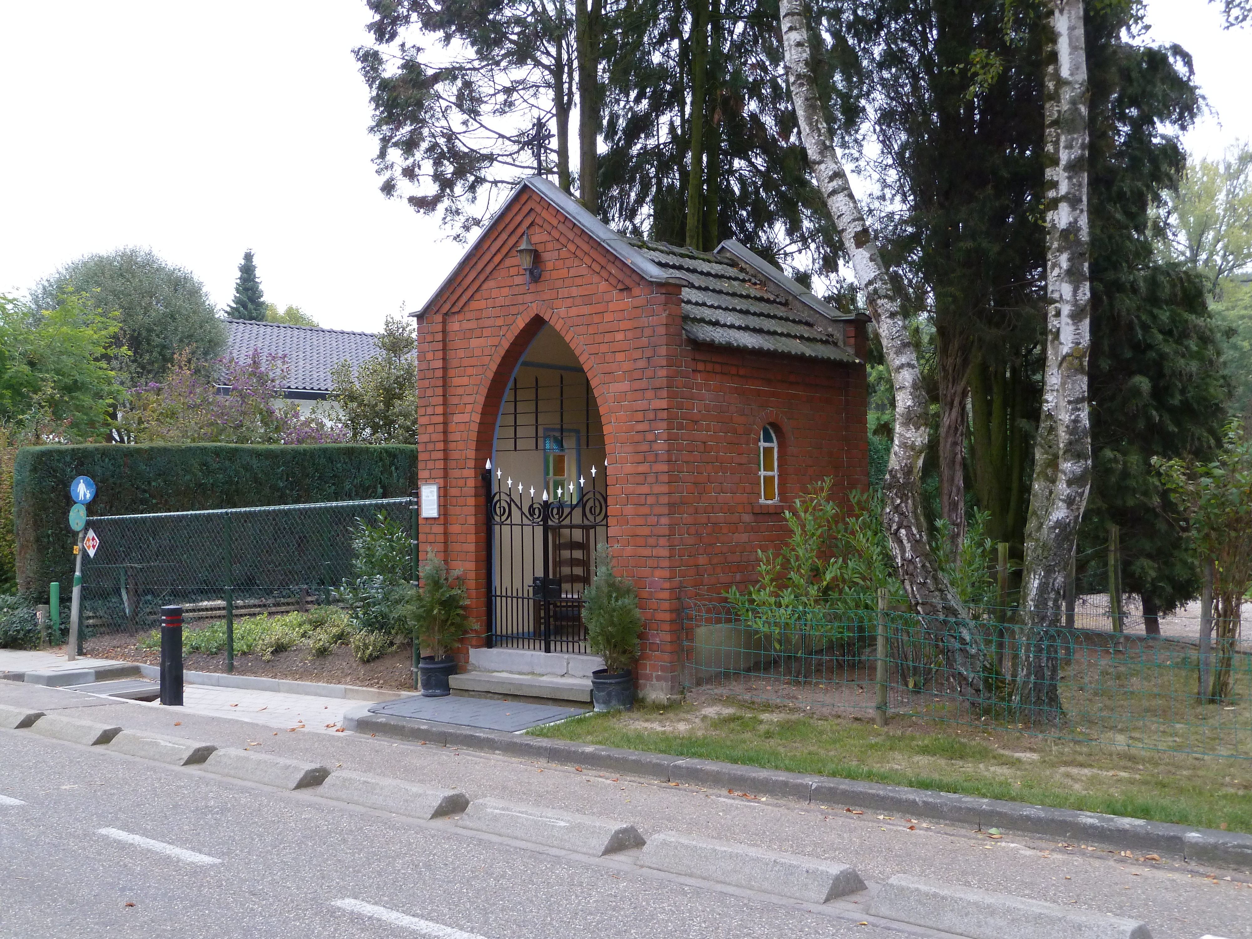 Heilig Hartkapel near nr 23a in Beutenaken, Limburg, the Netherlands